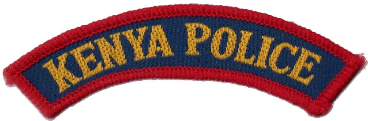 Part of my collection of Law enforcement patches from around the world. The Republic of Kenya is a country in East Africa. Lying along the Indian Ocean, at the equator, Kenya is bordered by Ethiopia (north), Somalia (northeast), Tanzania (south), Uganda plus Lake Victoria (west), and South Sudan (northwest).